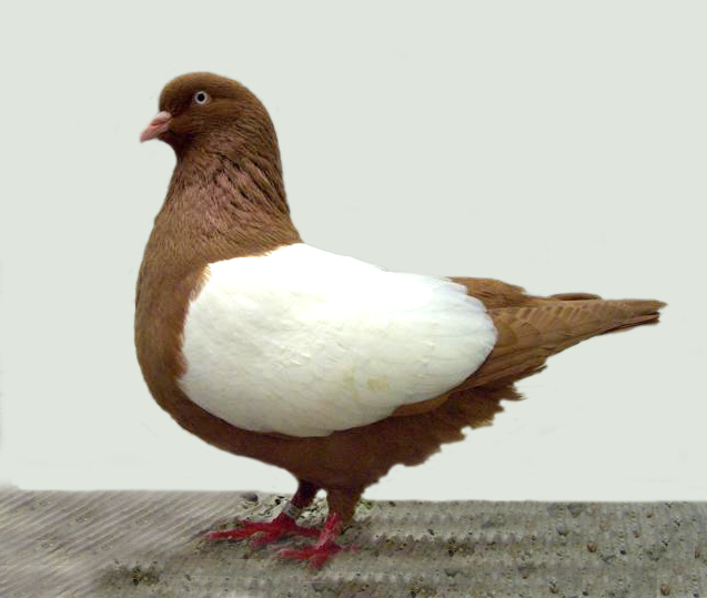 Dutch Highflier (Yellow Whiteside or Shield)